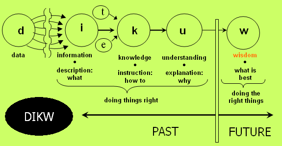 A flow diagram of the DIKW hierarchy; where d : data, i : information, k : knowledge, u : understanding, w : wisdom, t : tacit knowledge, and e : explicit knowledge Omegapowers, Own work This is from my own knowledge and understanding of DIKW model